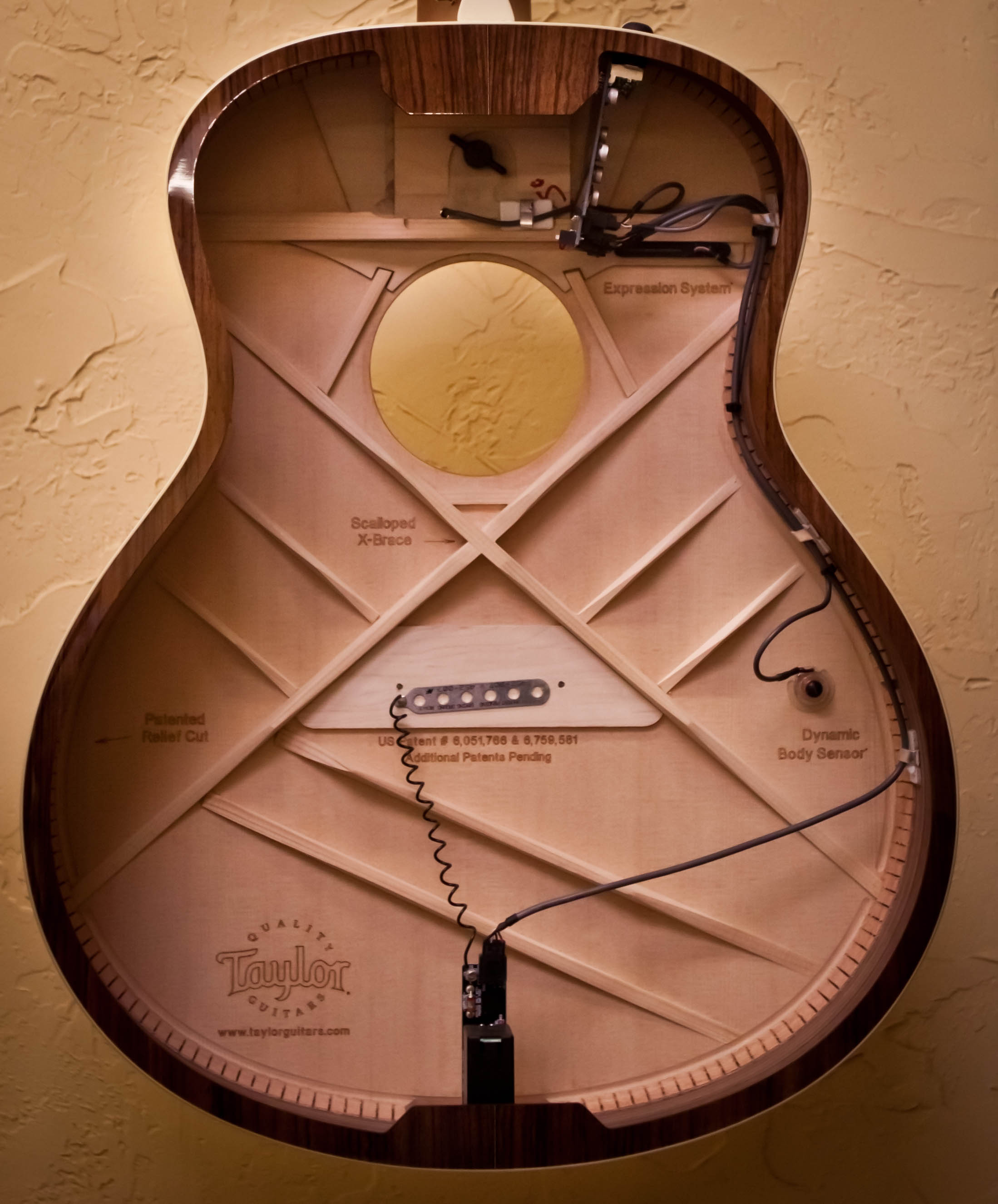 Why Taylor guitars sound so good Diagram of its insides. At: The Taylor factory tour. Free tours mon - fri at 1 p.m. in El Cajon, CA